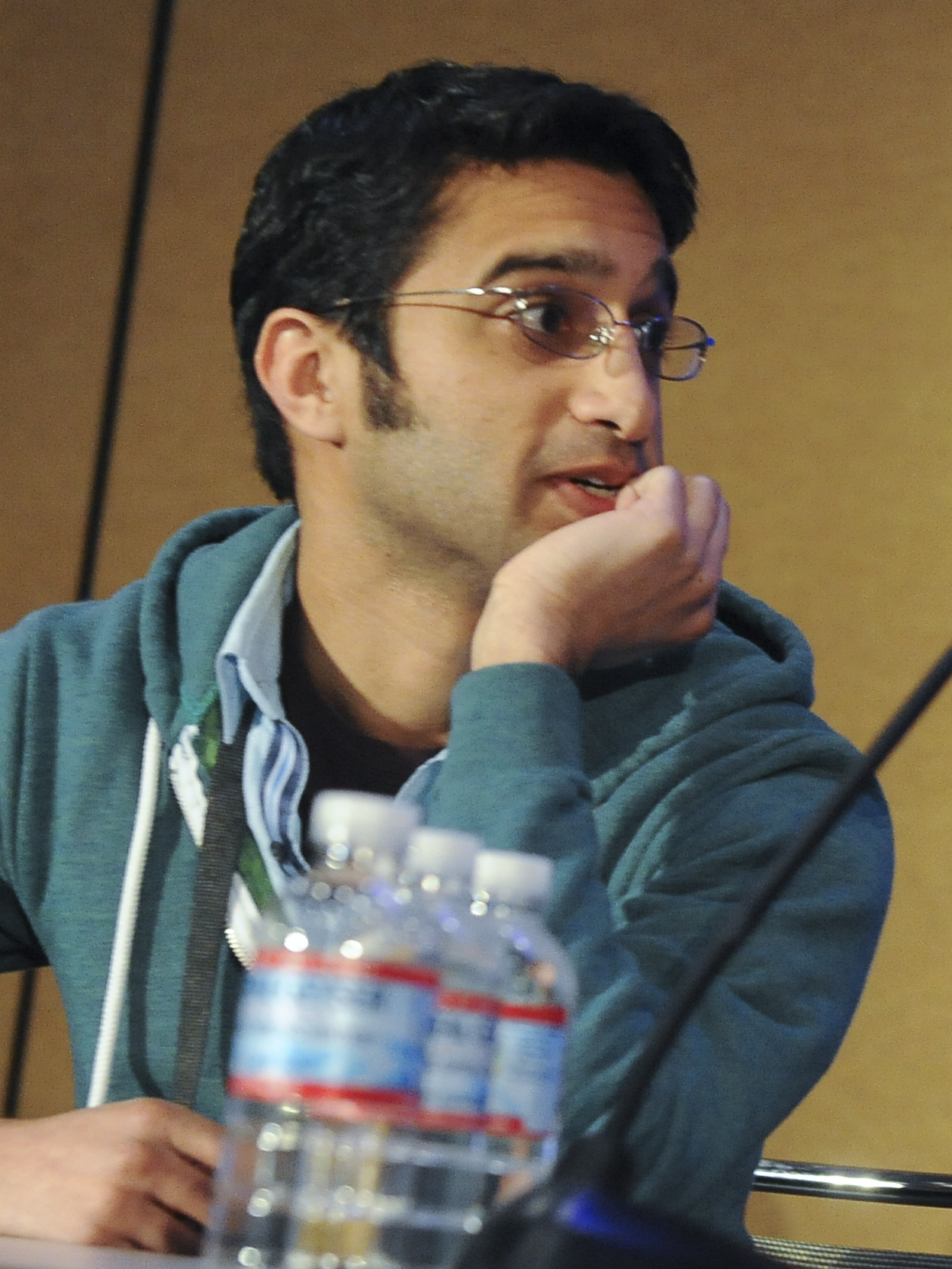 Crop of a photo of Amir Rao and another man at the Game Developers Conference in San Francisco in March 2012. Taken at a talk named "The Failure Workshop" as part of the Independent Games Summit.